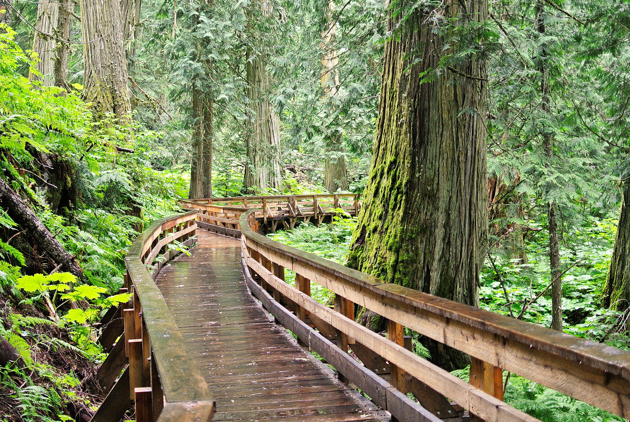 500px provided description: Boardwalk through The Ancient Forest on Hwy 16 in B.C. [#green ,#wet ,#rainforest ,#hike ,#boardwalk]